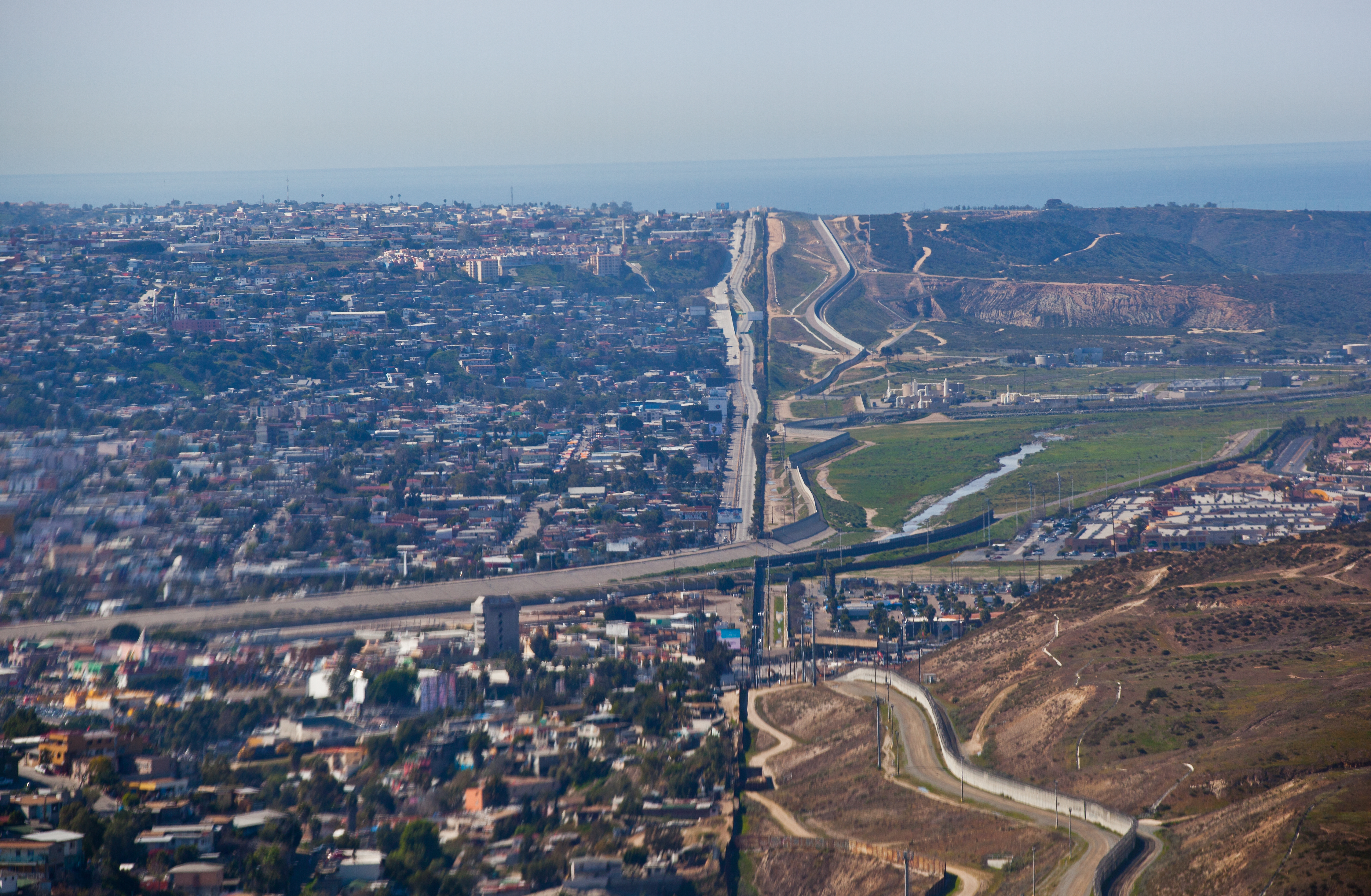 Photos were taken of the border fence that runs alond the border near San Diego. Photographer: Josh Denmark